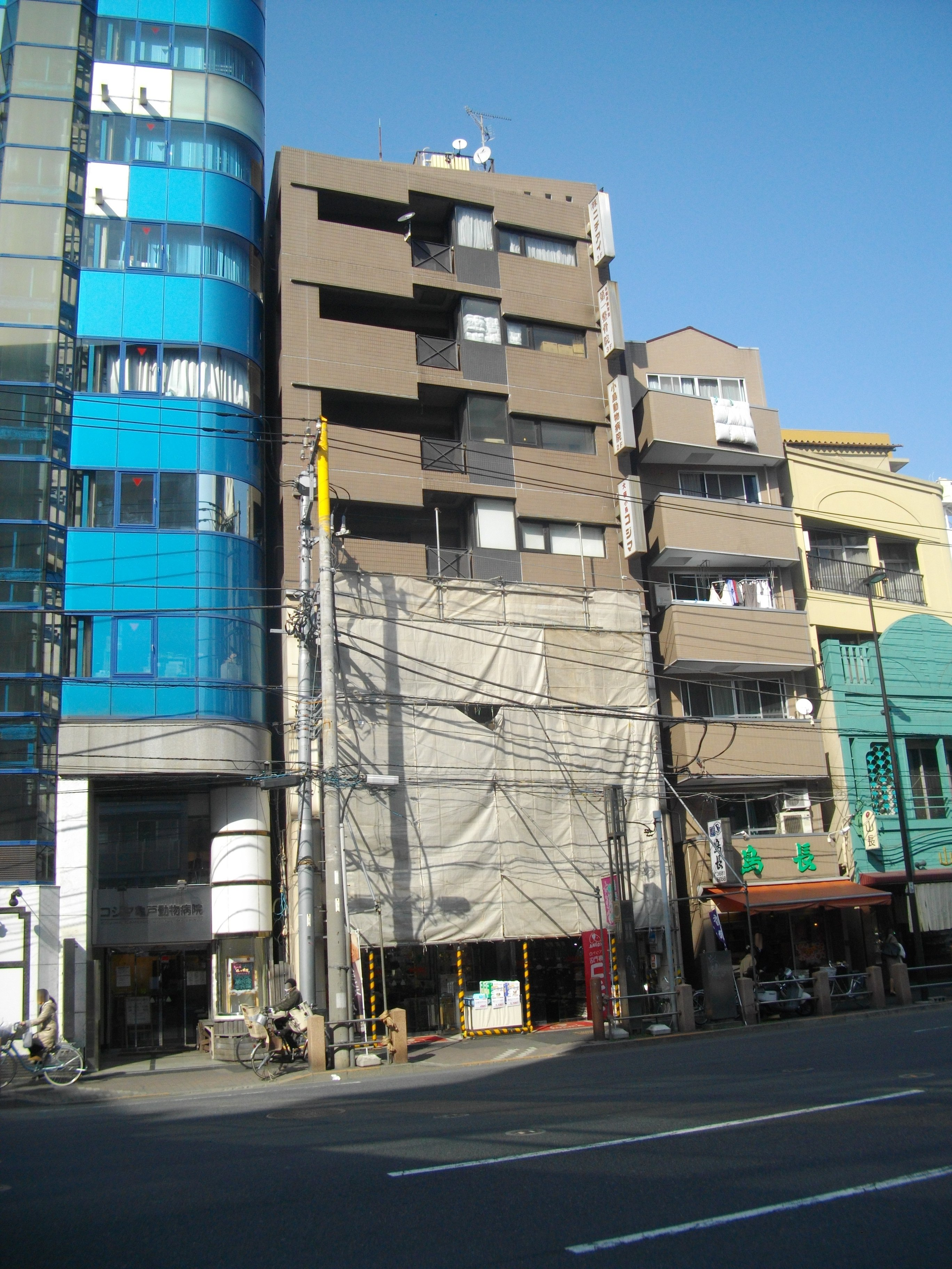 A photo of "Pets kojima"(A pet store in Tokyo.)Kameido head store.Kameido,Koto-ku,Tokyo,Japan.